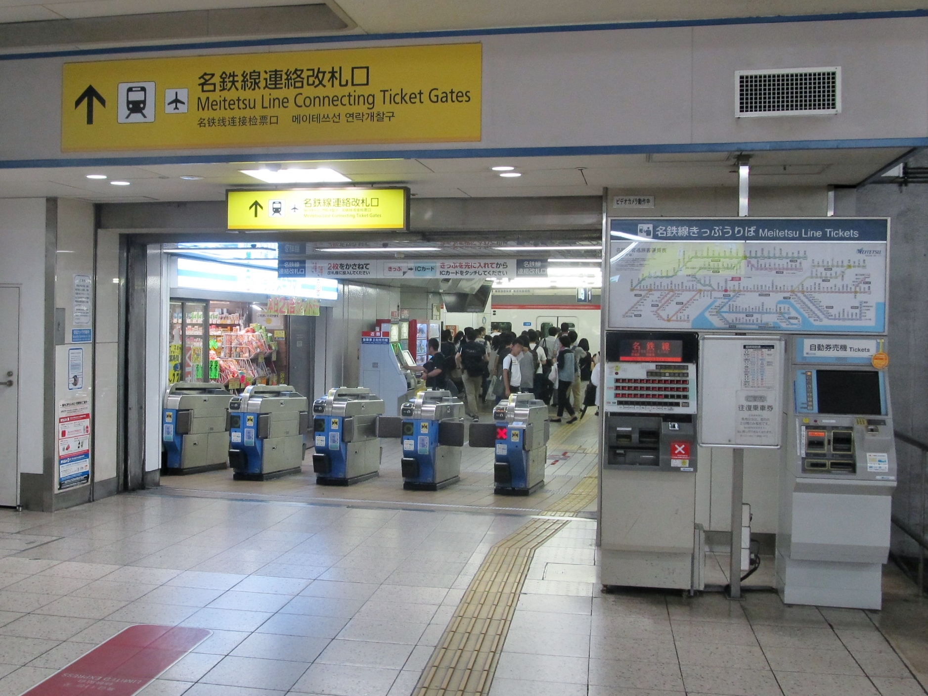 Nagoya Railroad Nagoya Main Line Meitetsu Nagoya Station Kintetsu/Meitetsu Connecting Gate